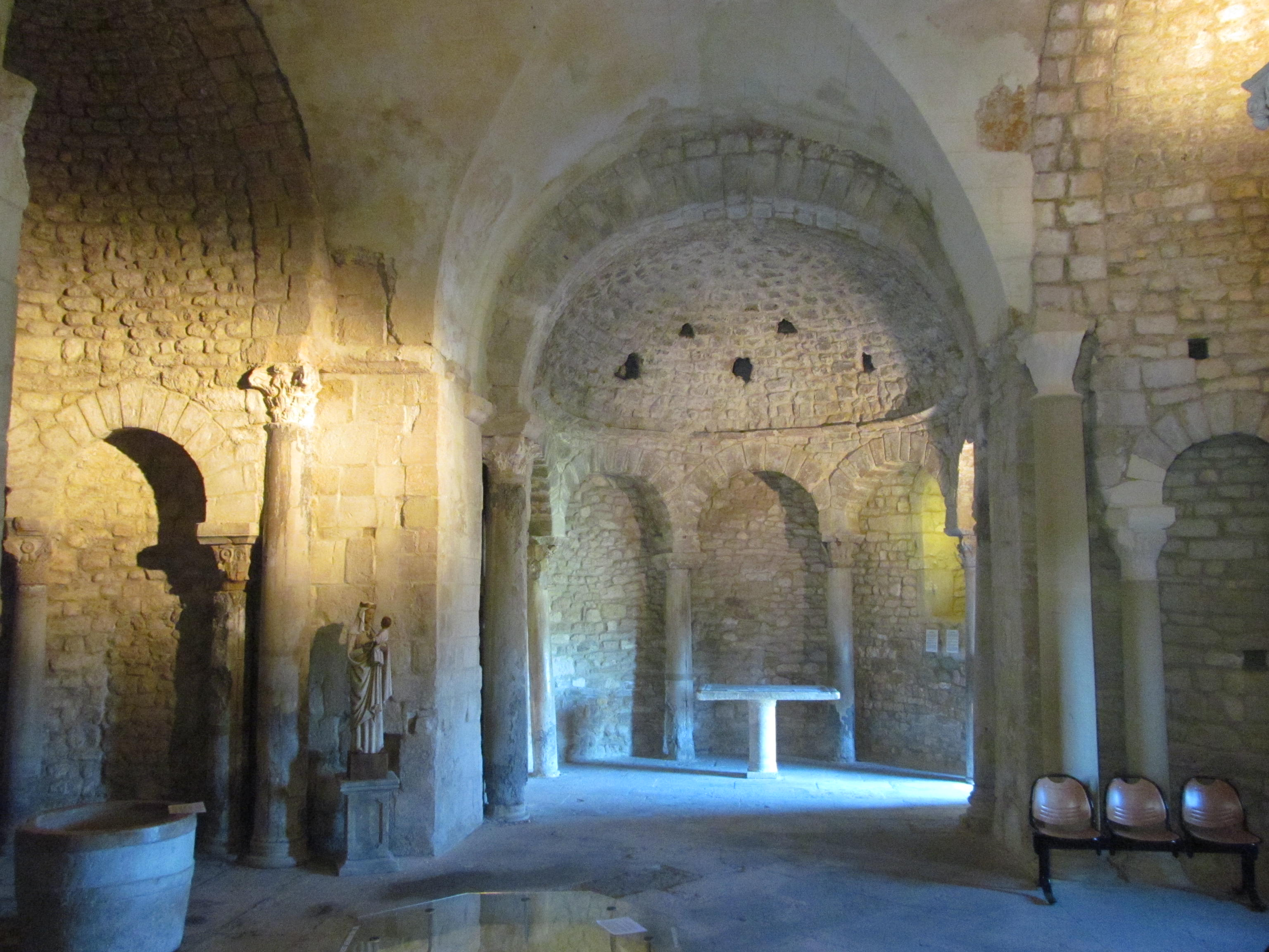 Interior of Baptistry